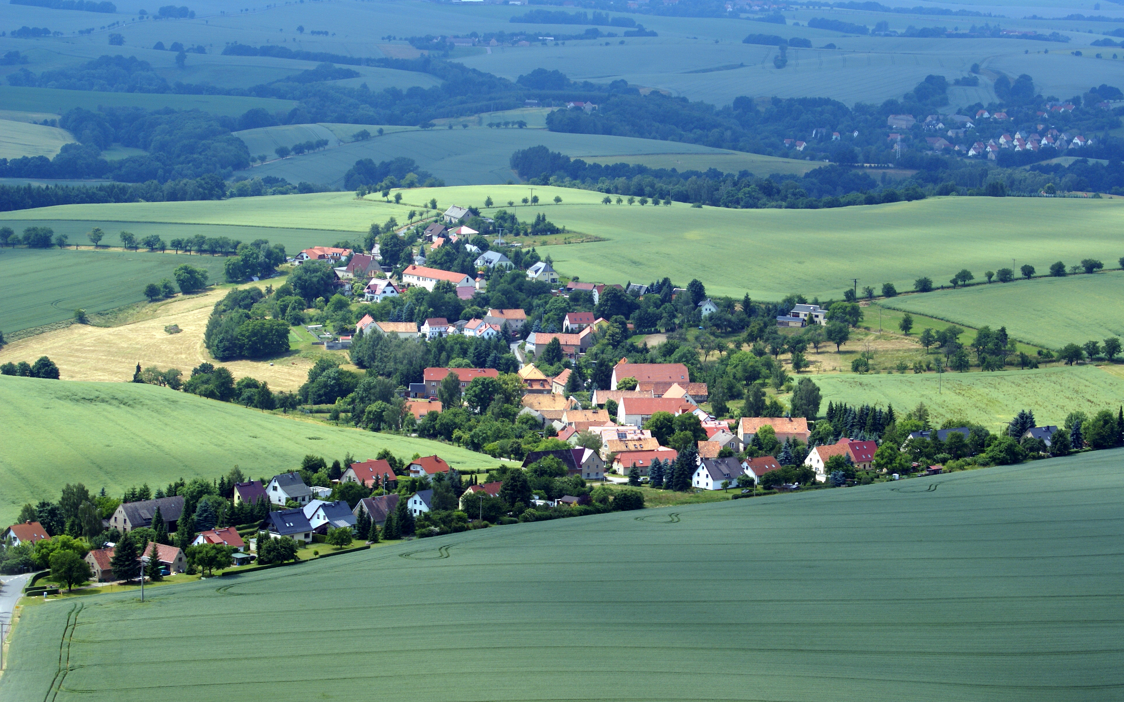 Aerial view of Polenz, Klipphausen, Germany